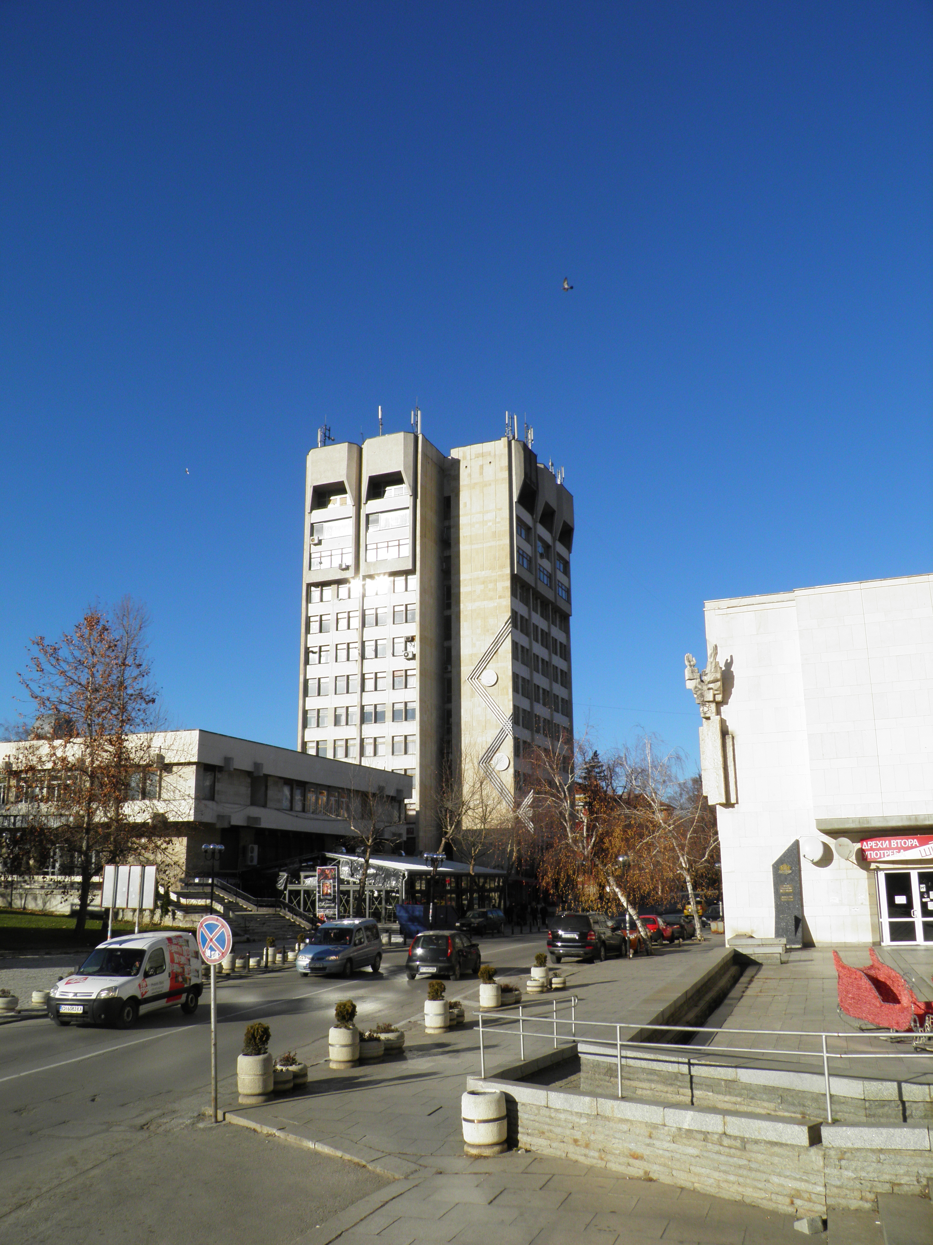 Building in Gorna Oryahovitsa